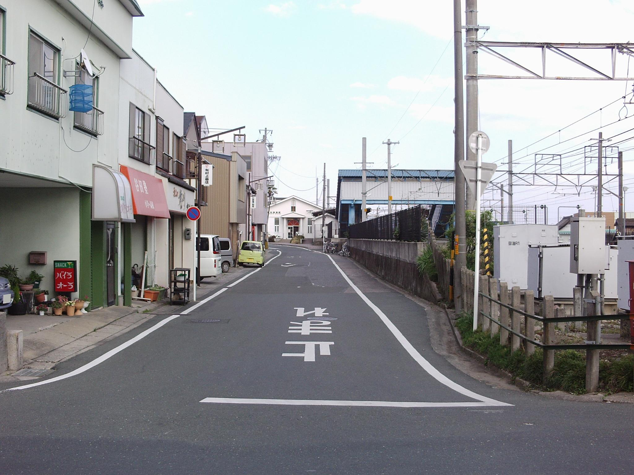 Aichi prefectural road No.501 in Mitochonishigata, Toyokawa, Aichi.